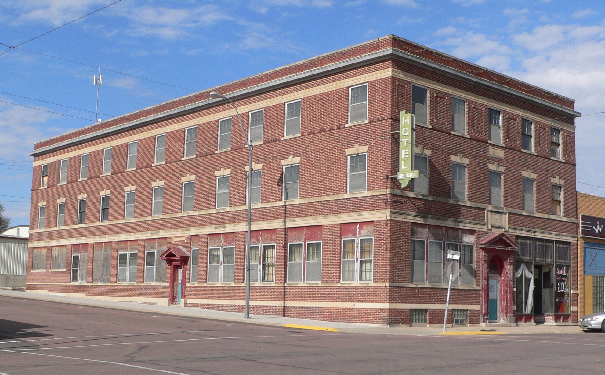 Hartington Hotel, located at northwest corner of Broadway and State in Hartington, Nebraska; seen from the southeast. The building was constructed in 1917. It is listed in the National Register of Historic Places.